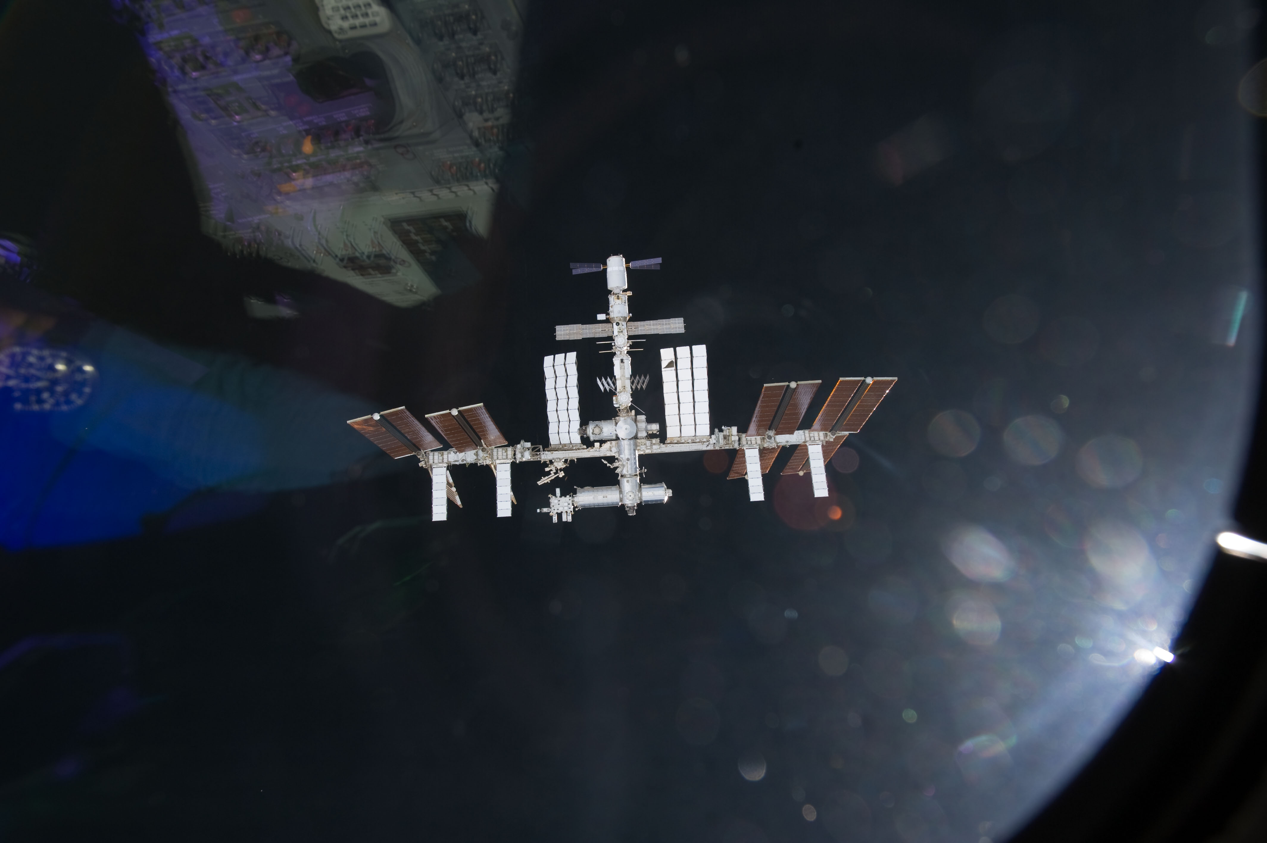 One of the crew members aboard the space shuttle Endeavour photographed this scene of the International Space Station (ISS) as the two spacecraft were preparing to link up in Earth orbit. The "extra" glares and reflections are inside Endeavour's crew cabin. Not long after the picture was taken, the two spacecraft docked, and six astronauts aboard Endeavour were welcomed by six crew members on the ISS to join forces for continued work on the station.